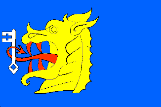 Municipal flag predating the 1997 rearrangement of municipalities